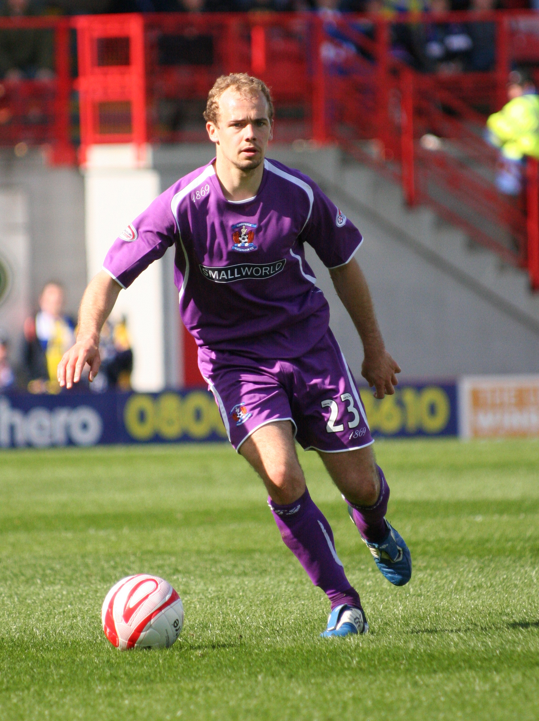 Jamie Hamill playing for Kilmarnock F.C. in a Scottish Premier League match.